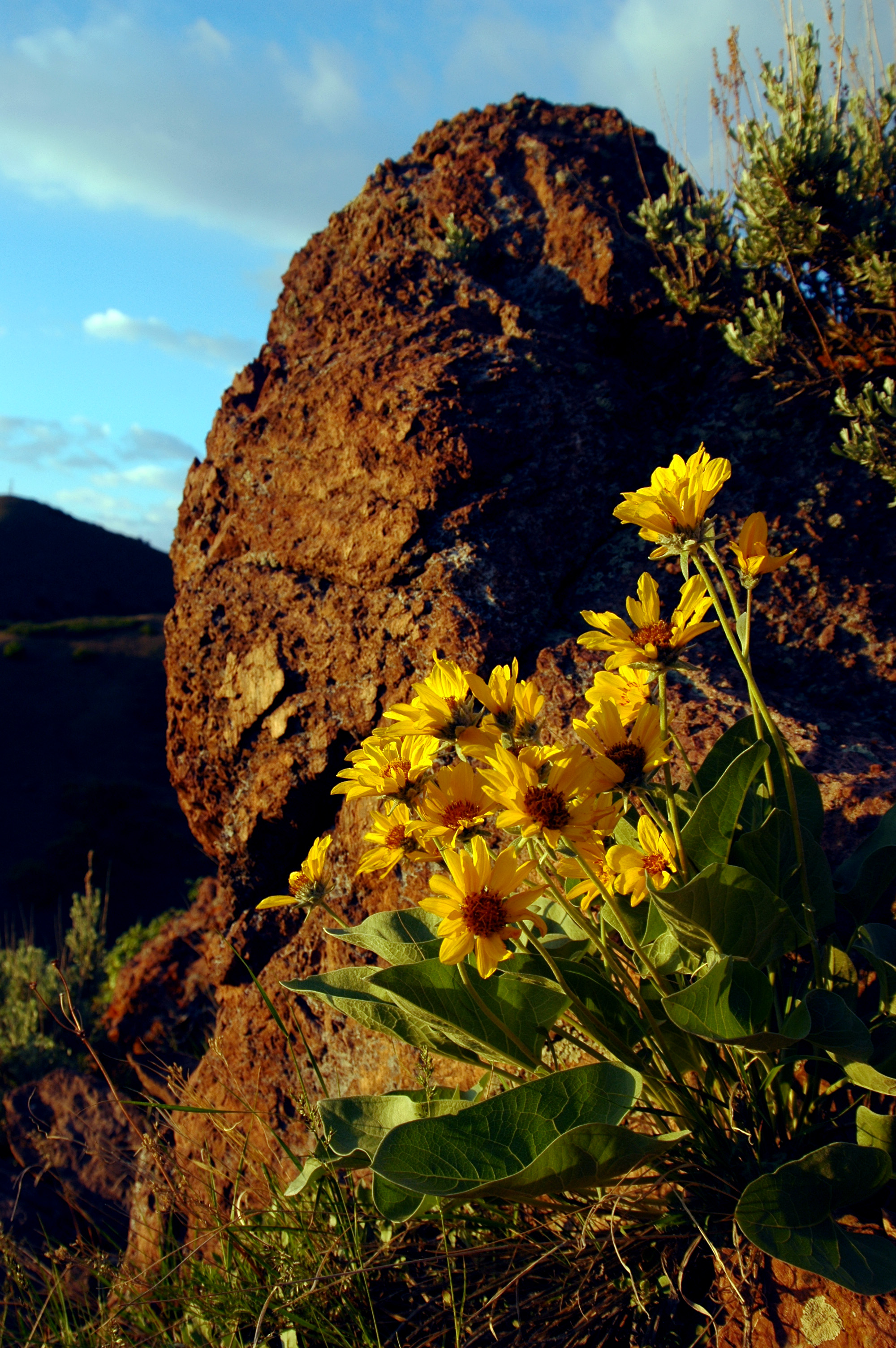 Arrowleaf Balsamroot Balsamorhiza sagittata flower